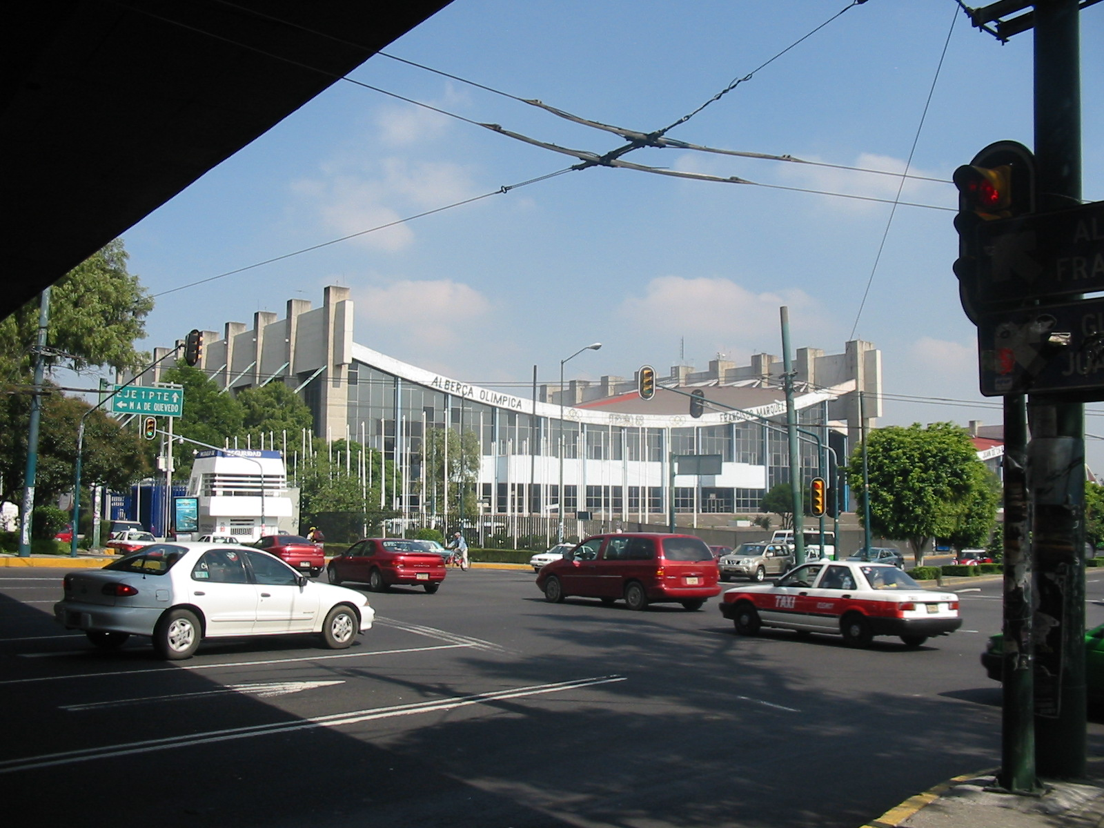 Photo of the Francisco Marquez Olympic Pool at the intersection of Eje Central and Division del Norte in Mexico City